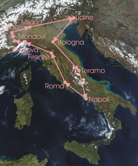 Map of Italy highlighting the stages of 1910 Giro d'Italia